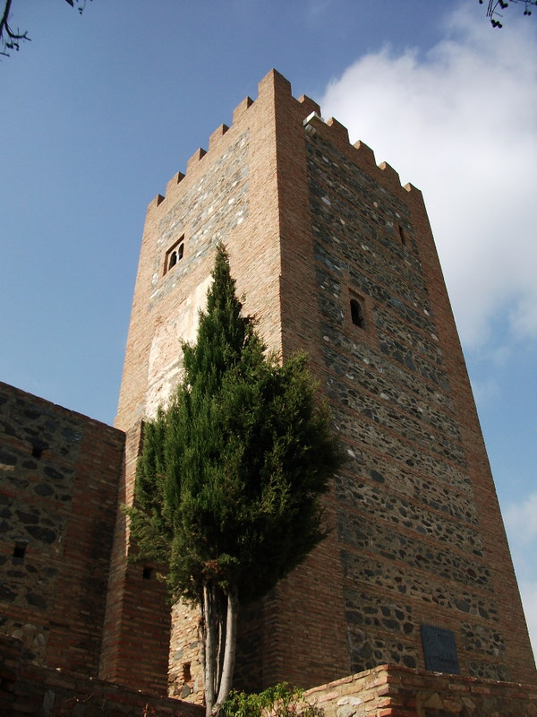 Castillo Vélez ago 2011